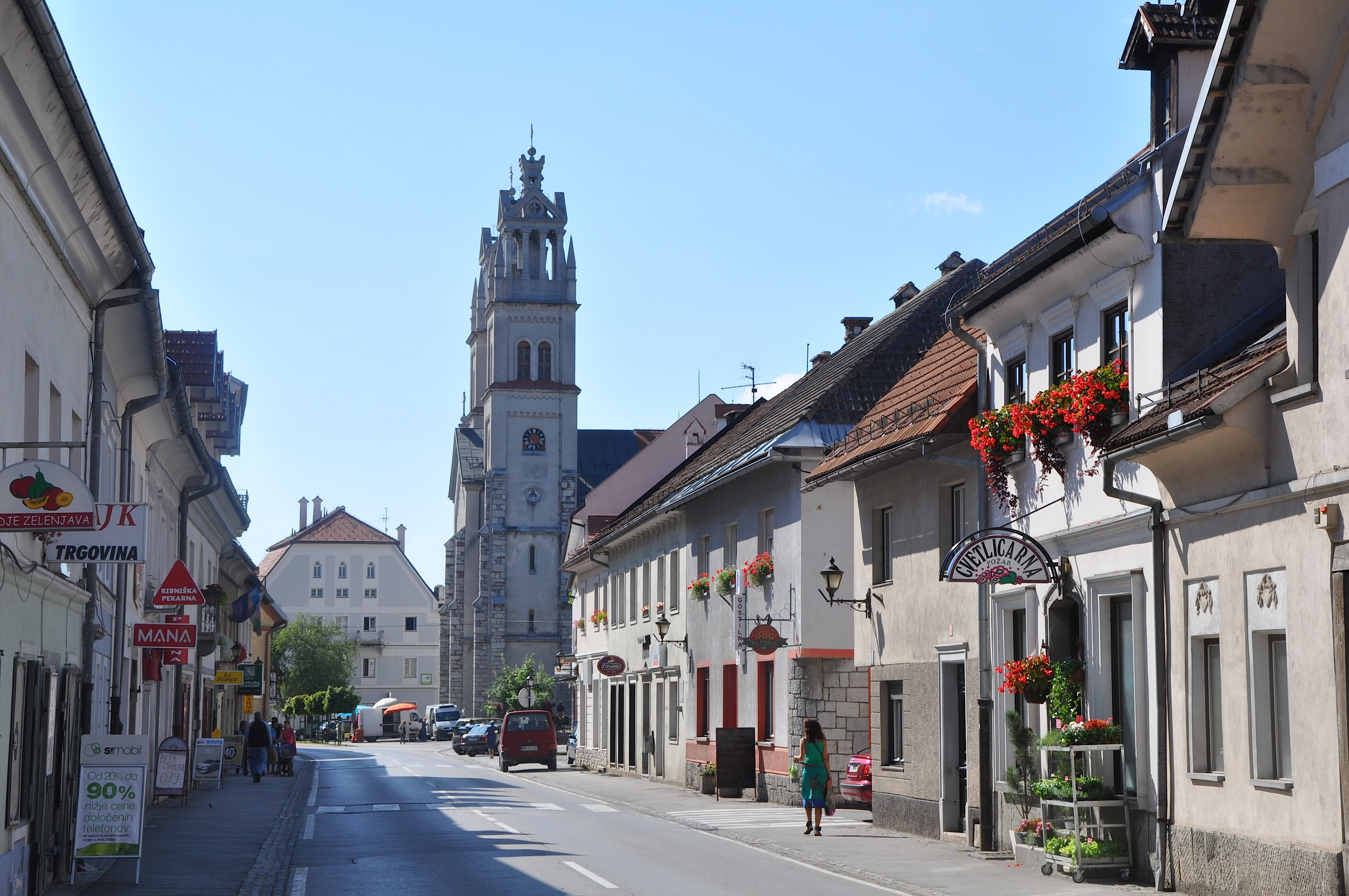 Ribnica, town in Slovenia